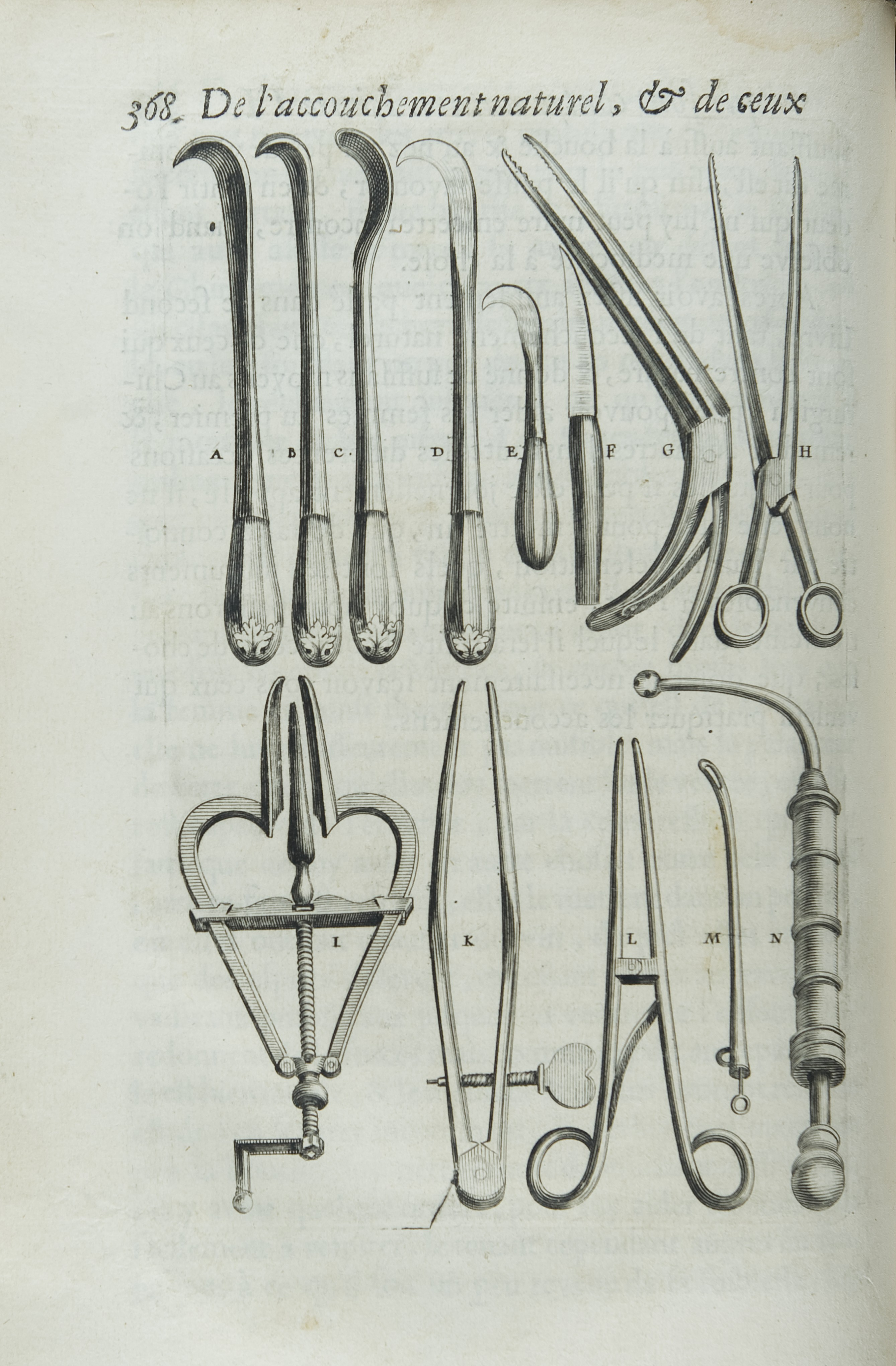 Illustration of instruments from Des maladies des femmes grosses et accouchées. Rare Books Keywords: Infant, Newborn, Diseases; Pregnancy Complications; Obstetrics; Sex